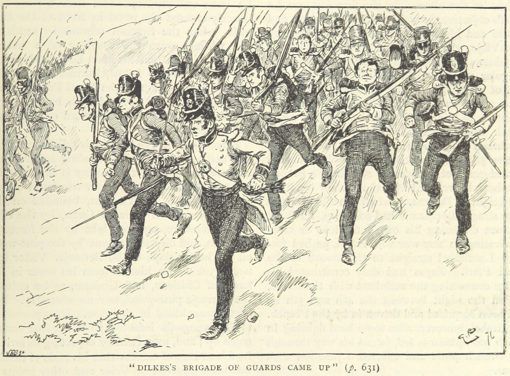 General Dilke's brigade advances at the 1811 Battle of Barrosa